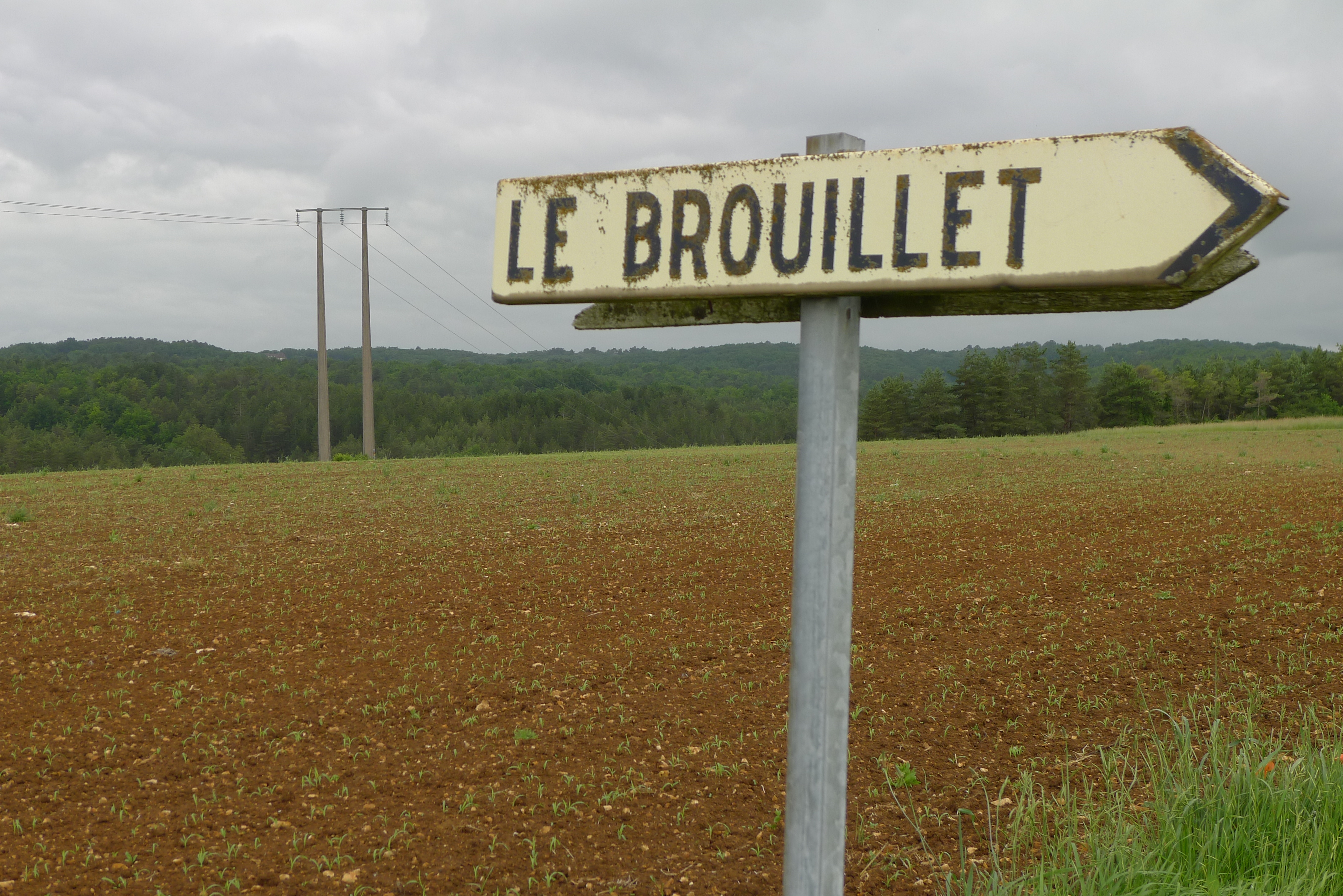 Roadsign Le Brouillet near the village Clermont de Beauregard - Dordogne - France